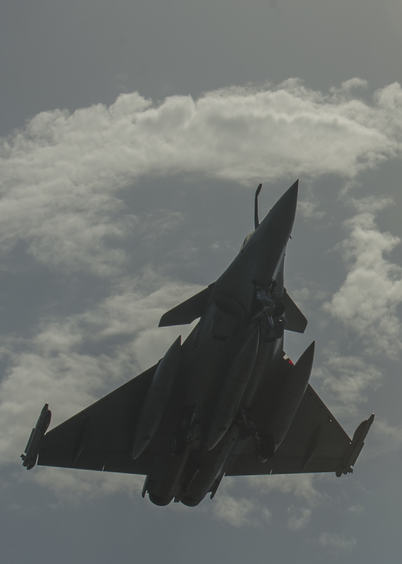 150303-N-TP834-089 ARABIAN GULF (Mar. 3, 2015) A French Rafale Marine aircraft of Squadron 11F deployed aboard the French nuclear aircraft carrier Charles de Gaulle (CDG) performs carrier qualifications aboard the U.S. nuclear powered aircraft carrier USS Carl Vinson (CVN 70). Carl Vinson is deployed as part of the Carl Vinson Strike Group supporting maritime security operations, strike operations in Iraq and Syria as directed, and theater security cooperation efforts in the U.S. 5th Fleet area of responsibility. (U.S. Navy photo by Mass Communication Specialist 2nd Class John Philip Wagner, Jr./Released)